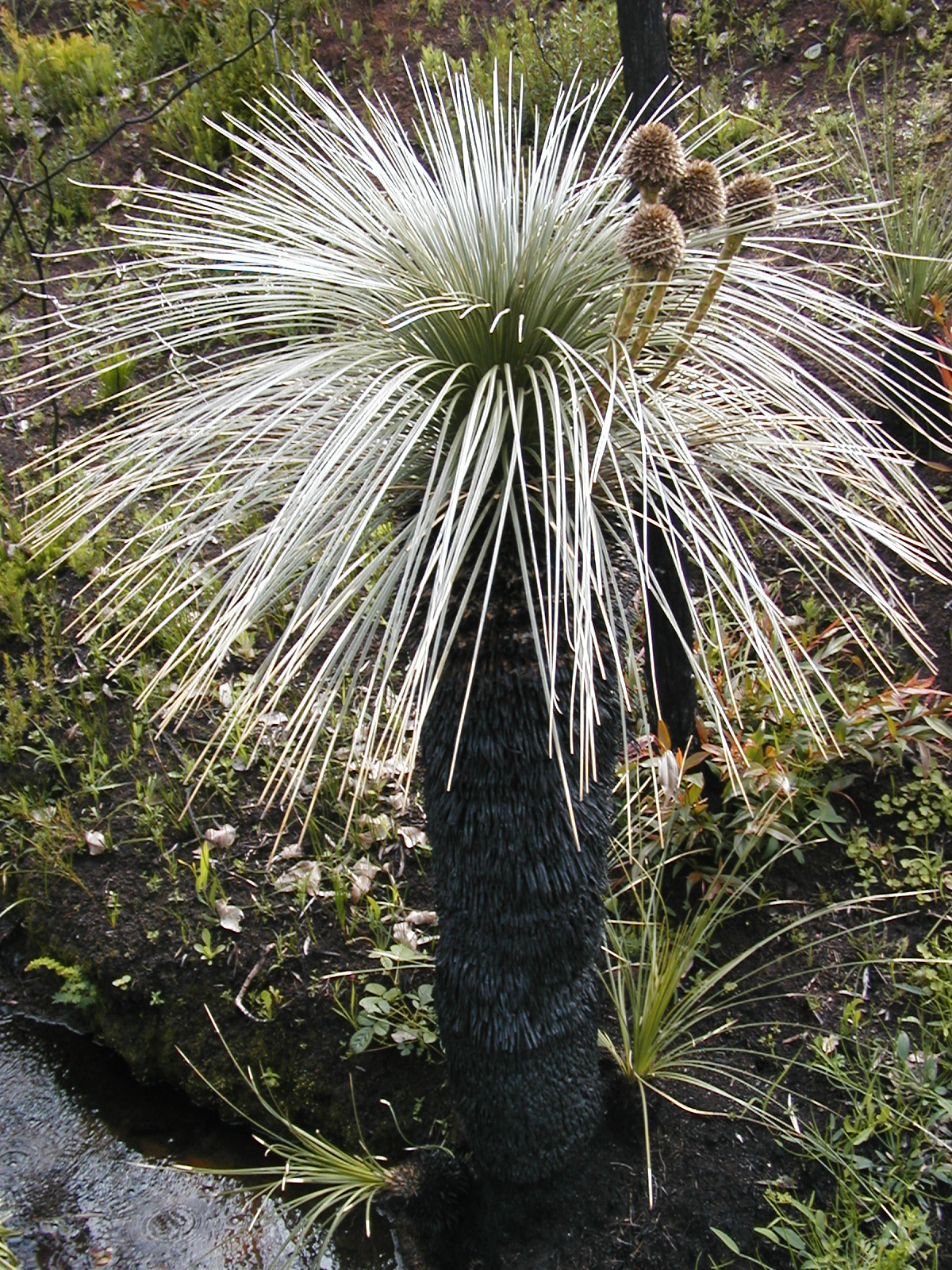 Kingia australis, in area recently burnt by fire in previous two years. Vicinity of Eagle Bay, Western Australia